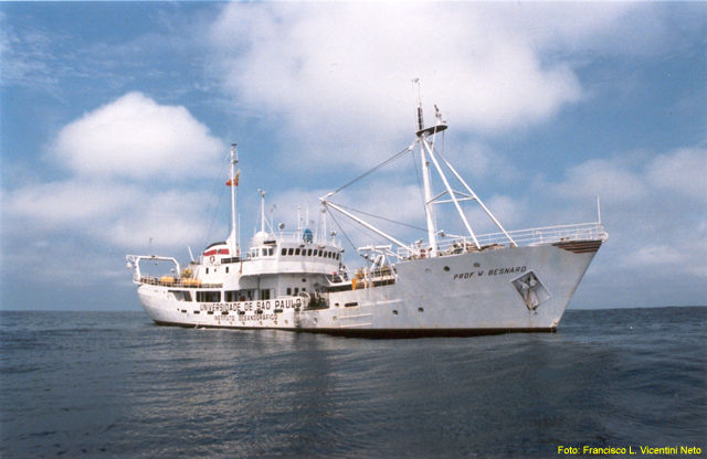 Prof W. Besnard Oceanographic Ship.